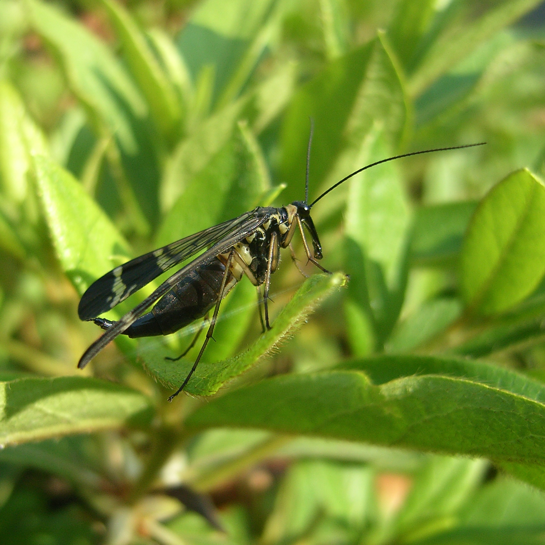 ヤマトシリアゲ A kind of Mecopteran Species Panorpa japonica Familia Panorpidae Other photos; Location Nishi-ku, KOBE, Japan Copyright OpenCage